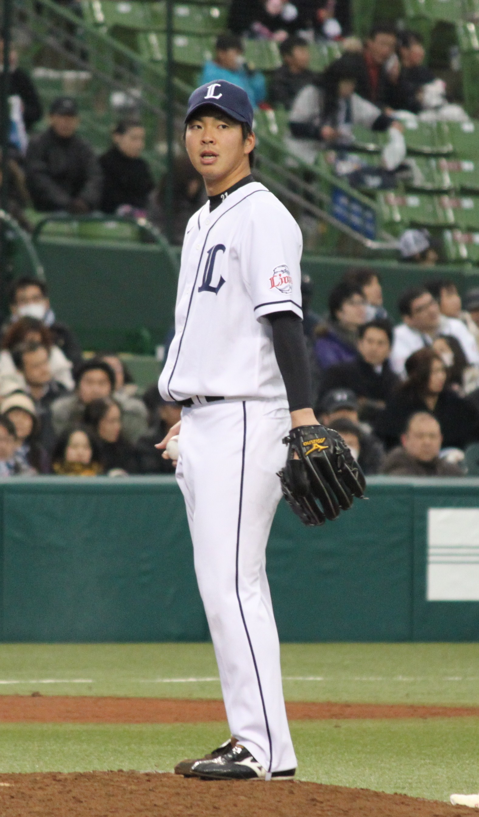 Ken Togame, pitcher of the Saitama Seibu Lions, at Seibu Dome.